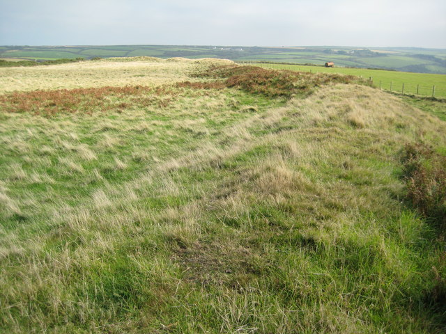 Embury Beacon The defensive earthwork of Embury Beacon an Iron Age hill fort. The fort is situated above the cliffs on the coast and over time part of the hill fort has slipped into the sea as a result of coastal erosion.